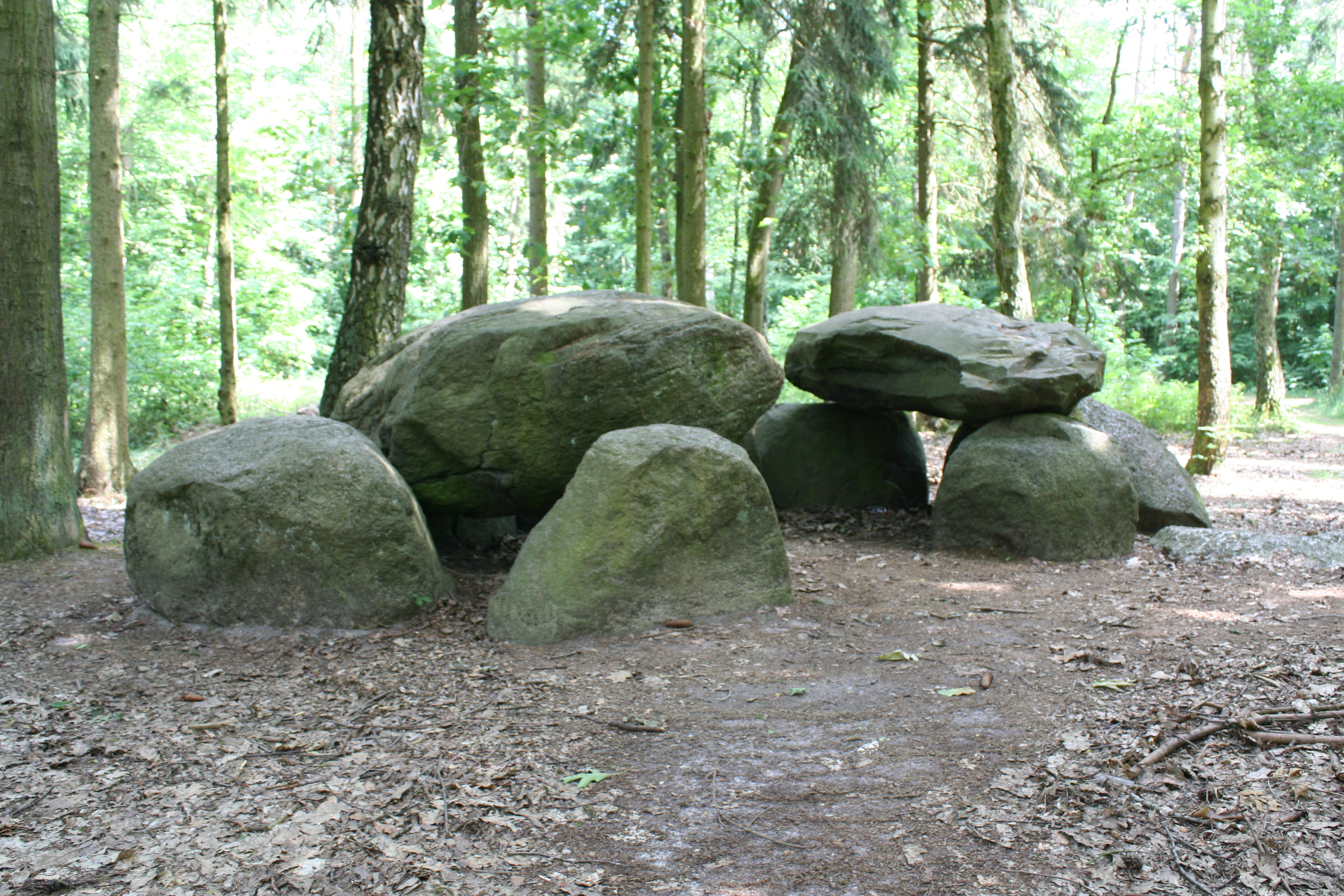 Dolmen “Teufelsküche” (“Devil's kitchen”) at Haldenslebener Forst